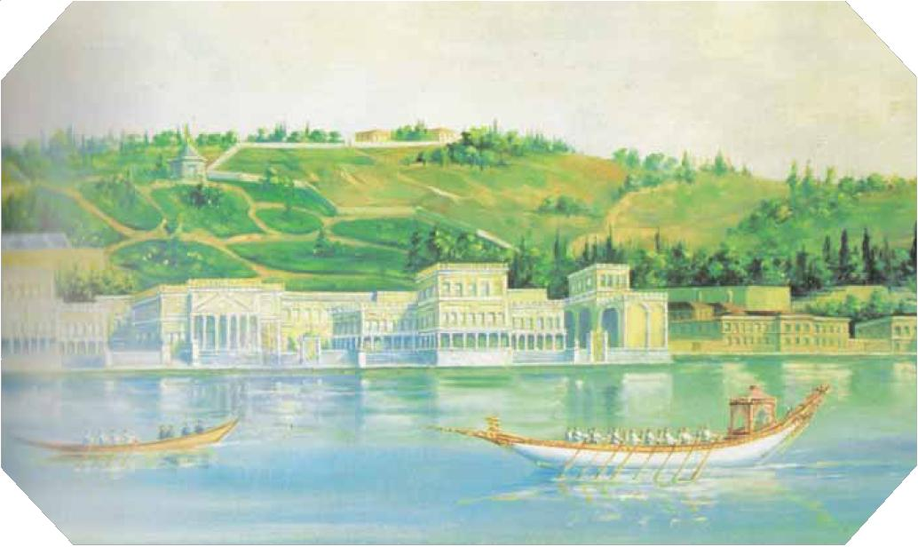 Çırağan Palace, the hills of Yıldız Park in the background